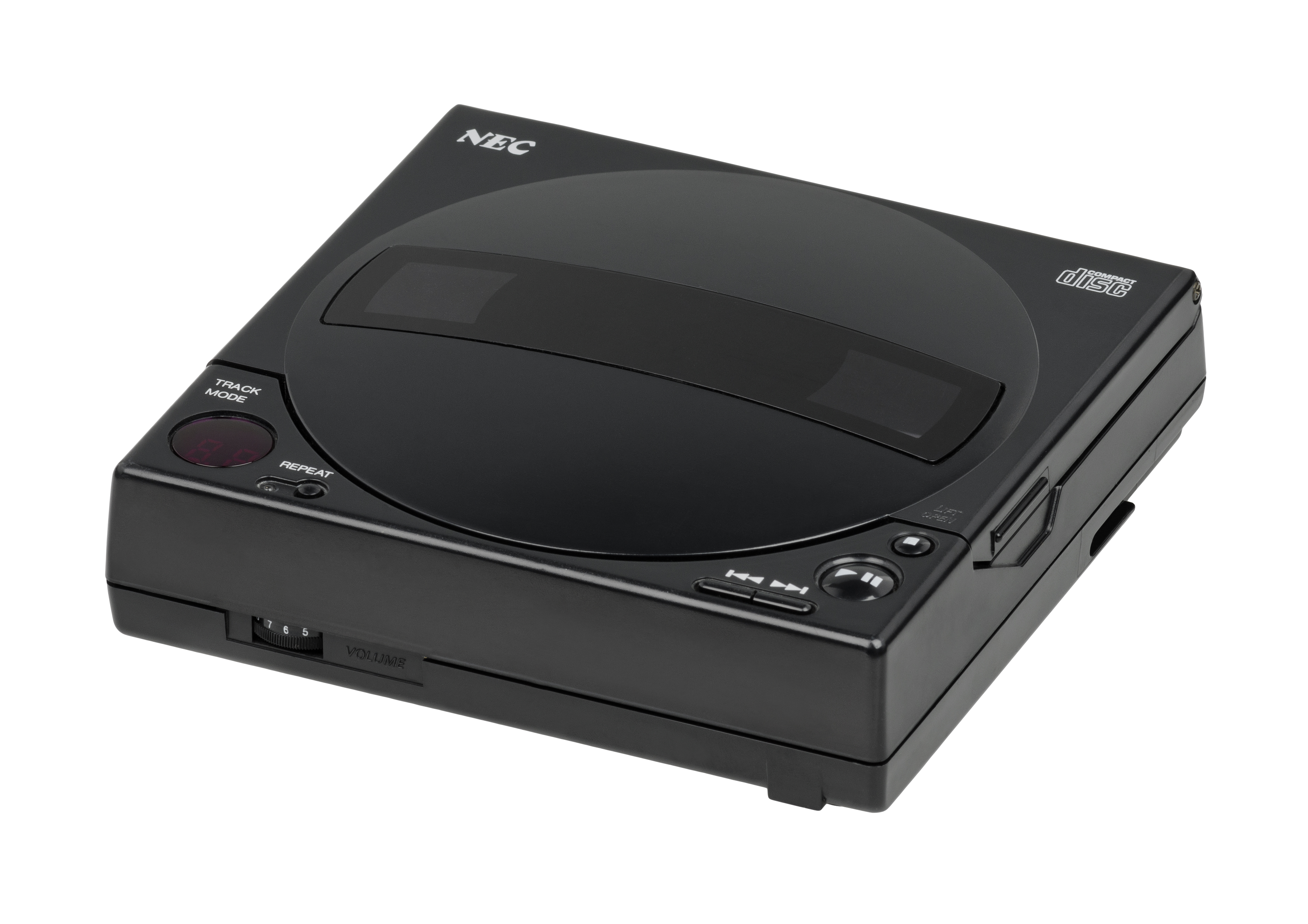 The CD-ROM drive for the TurboGrafx-16 video game console. Released by NEC in 1989, it is the first CD-ROM drive for a video game console released in North America. This drive is also a unit that can be used independently to play audio CDs as well. It attached to the console via a large dock that was included with the drive, which sold altogether for $399 at launch.